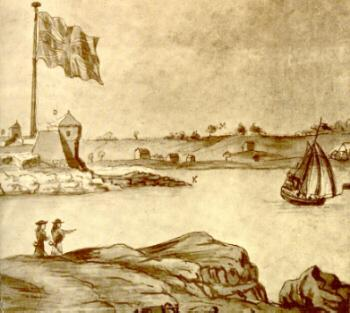 Fort William and Mary, New Castle, NH; detail from "An Explanation on the Prospect Draft of Fort William and Mary on Piscataqua River in ye Province of New Hampshire on the Continent of America," 1705. New Hampshire Historical Society, Concord, nh